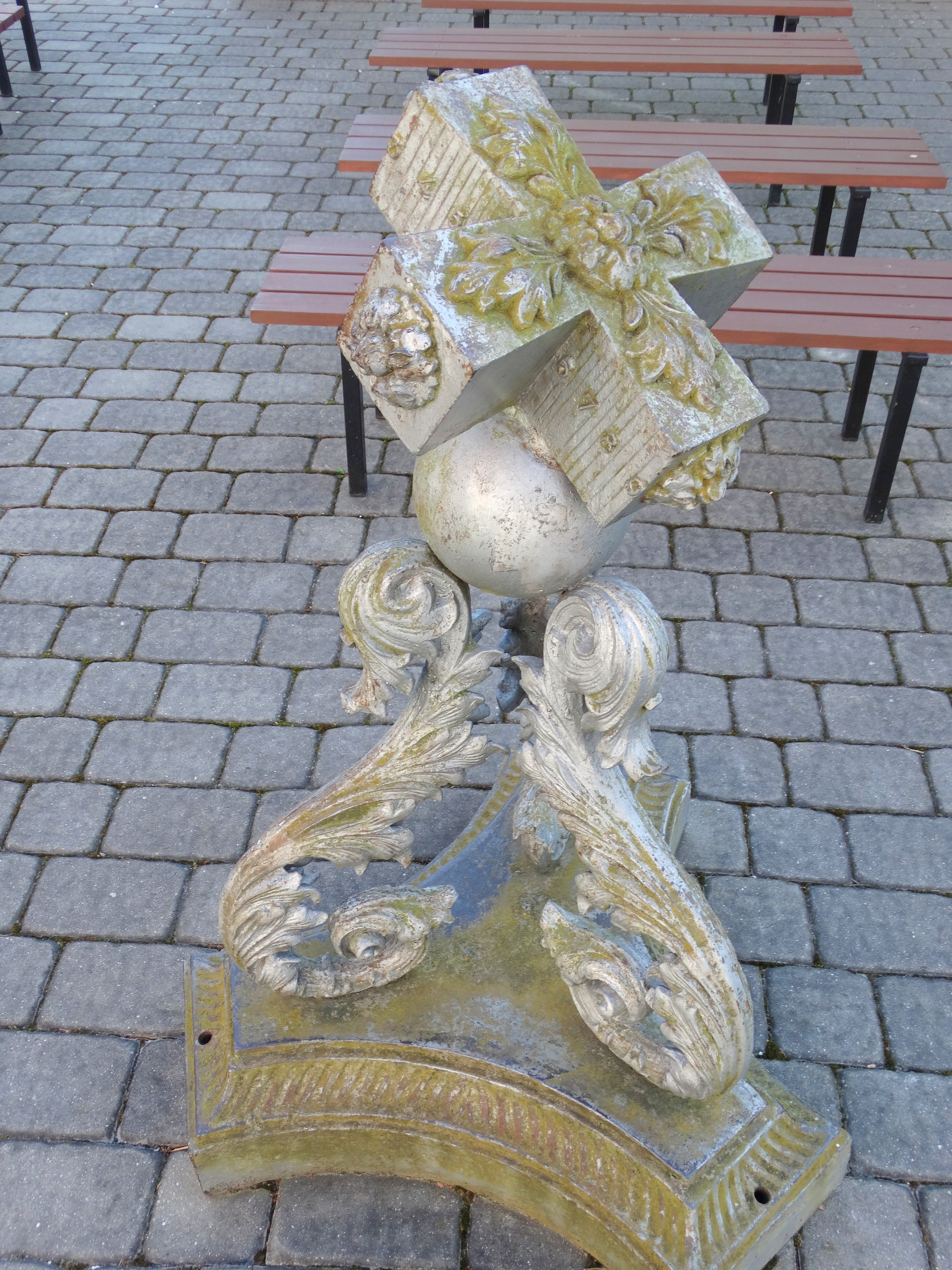 Sundial, Kėdainiai, Lithuania